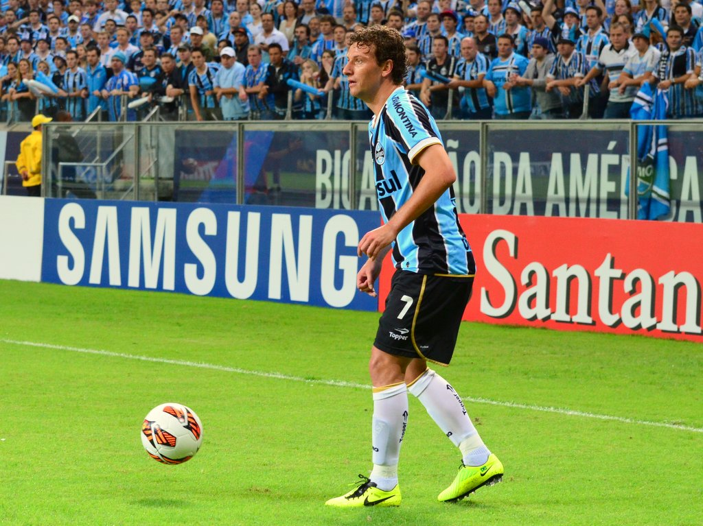 Elano em 2013, pela Copa Libertadores